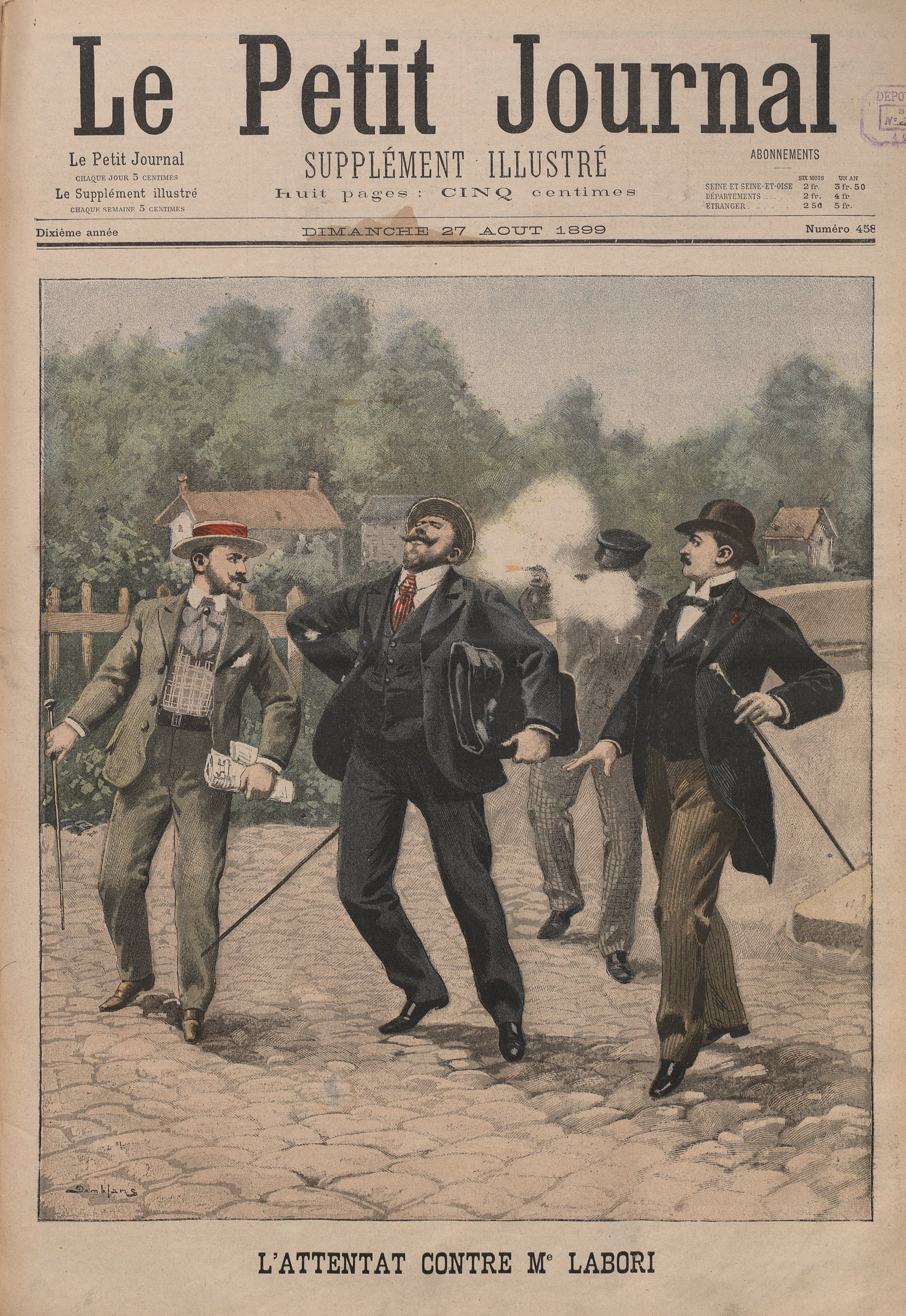 The attempted assassination of Fernand Labori in 1899, pictured on the front page of Le Petit Journal, August 27 1899